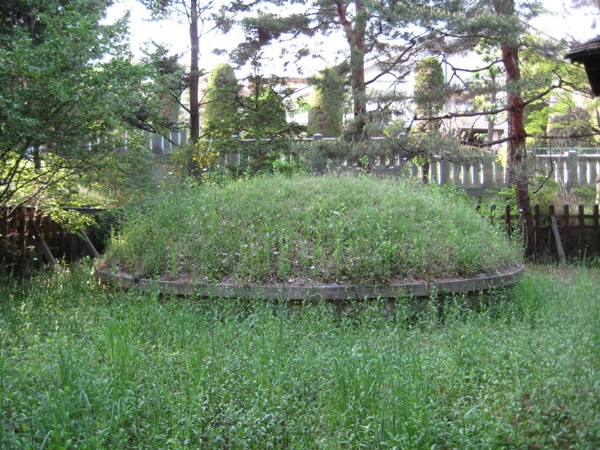 Photograph taken of the burial mound of the "Joukyou Gimin", who were executed after the aborted appeal to the government. The incident has been called the Joukyou uprising(1686), or the Kasuke uprising.